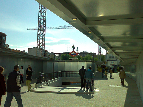 Access to San Fernando Station